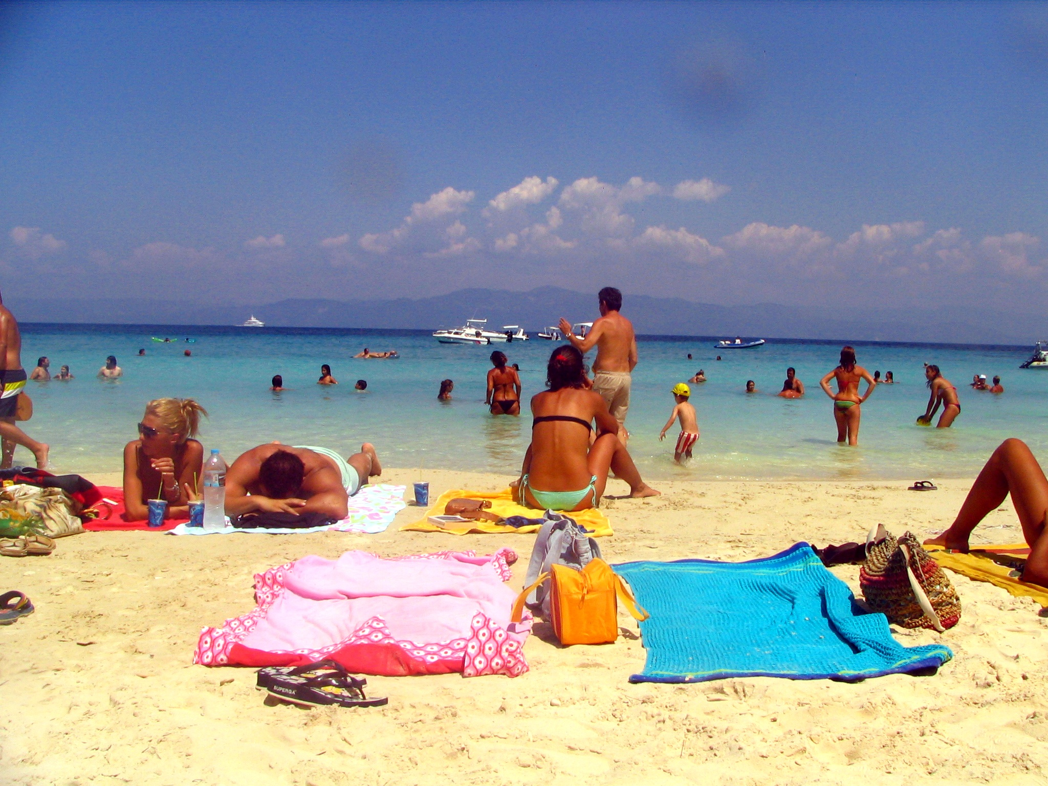 The sea, as seen from the Vrika beach of Antipaxos island, Greece